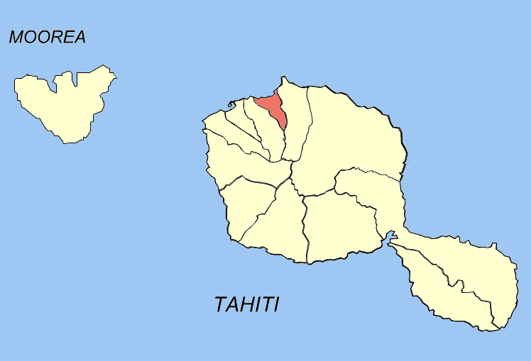 Map of Tahitian communes — ’Arue